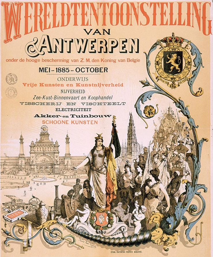 Exposition Universelle d'Anvers (1885)